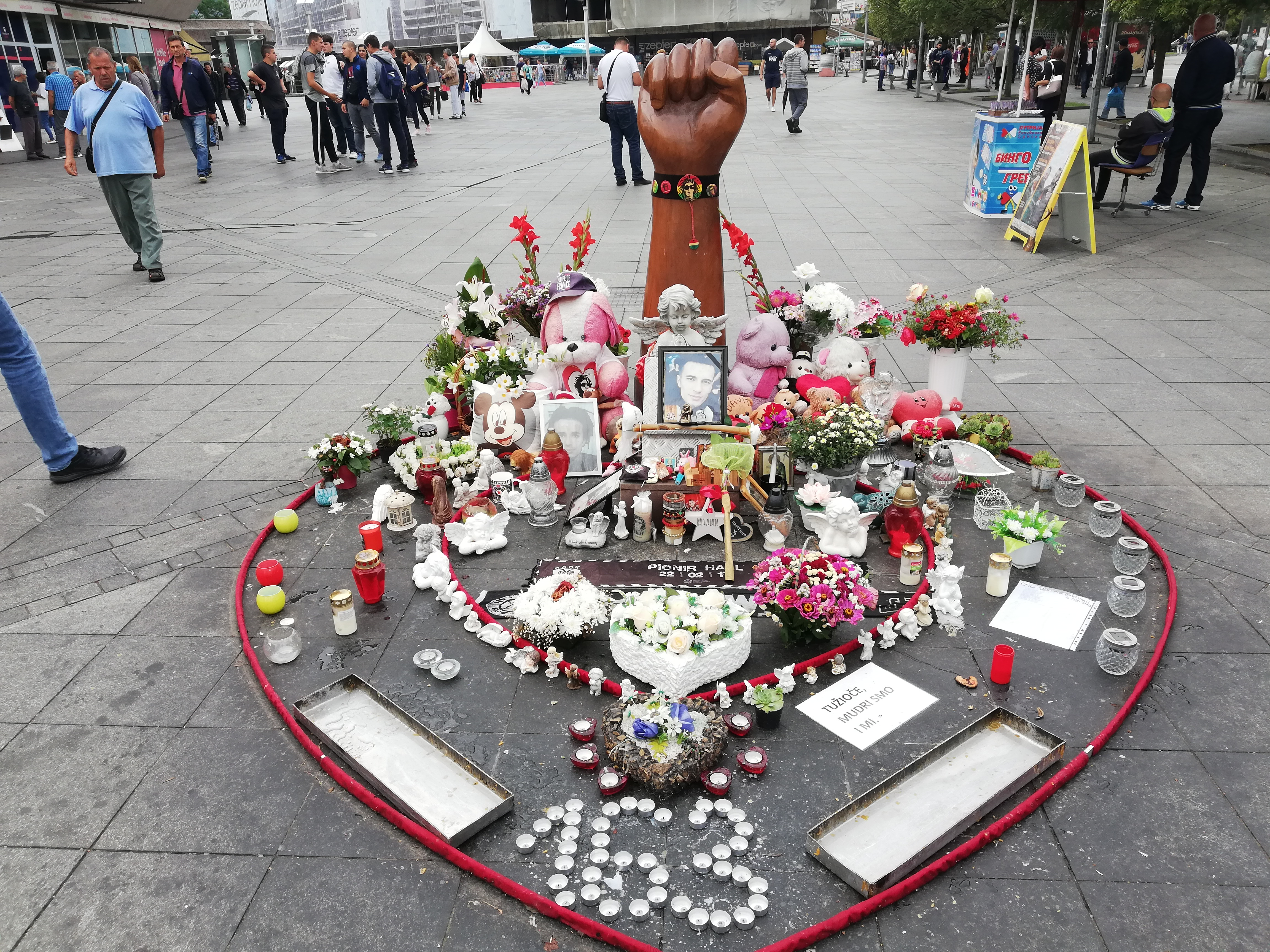 David Dragičević Memorial in the Streets of Banja Luka